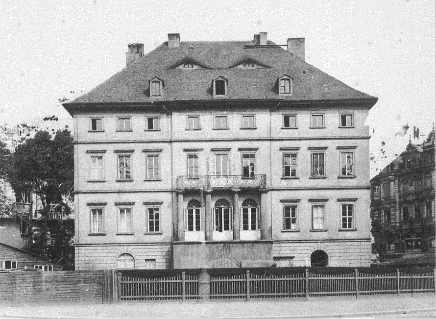 Preußsches Haus in Dresden